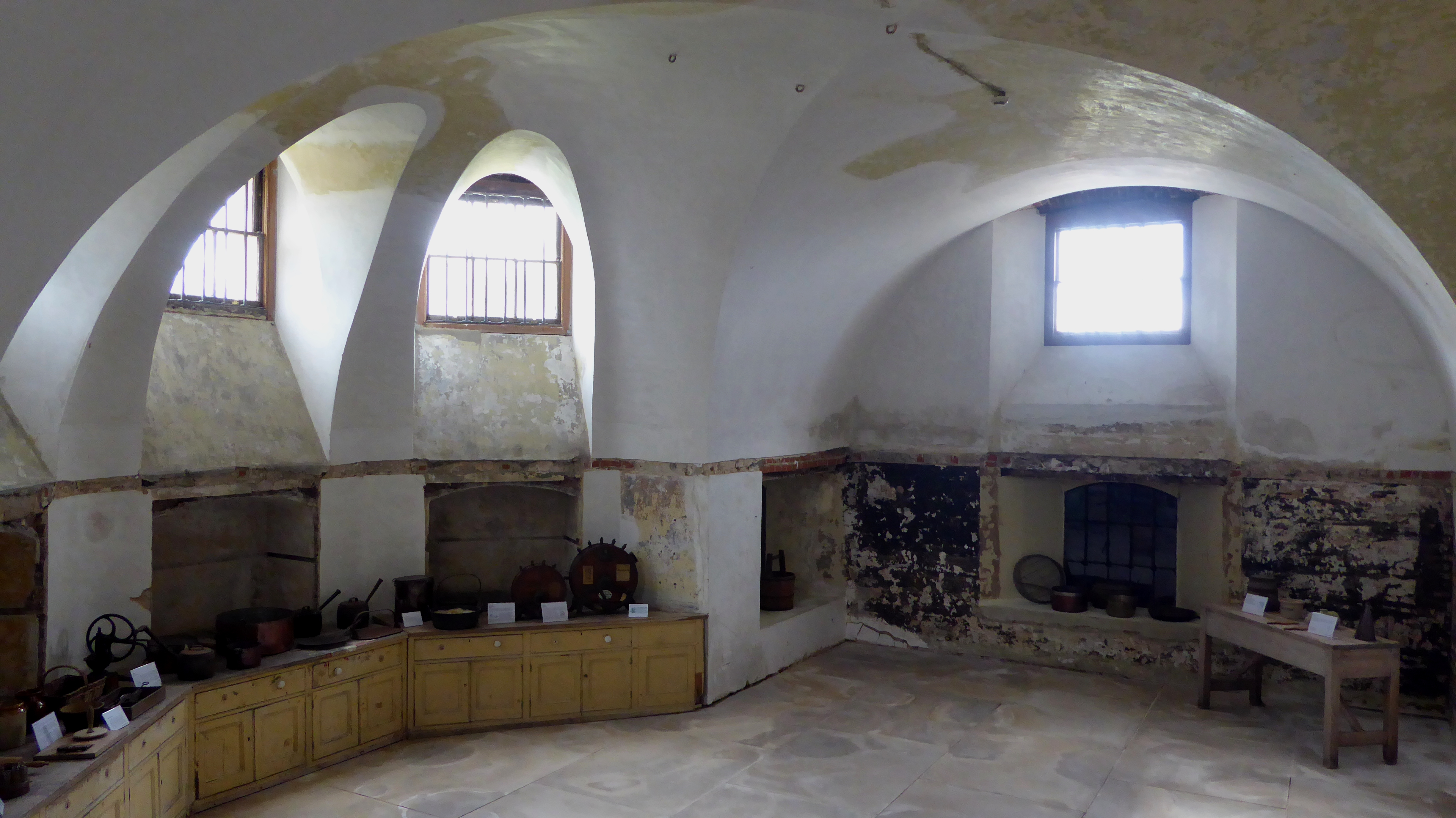 A basement room at Danson House in London Borough of Bexley, southeast London. The room was used as a kitchen during the 19th century.